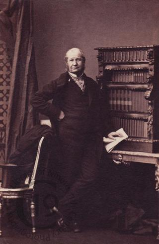 Photograph of General Mildmay Fane